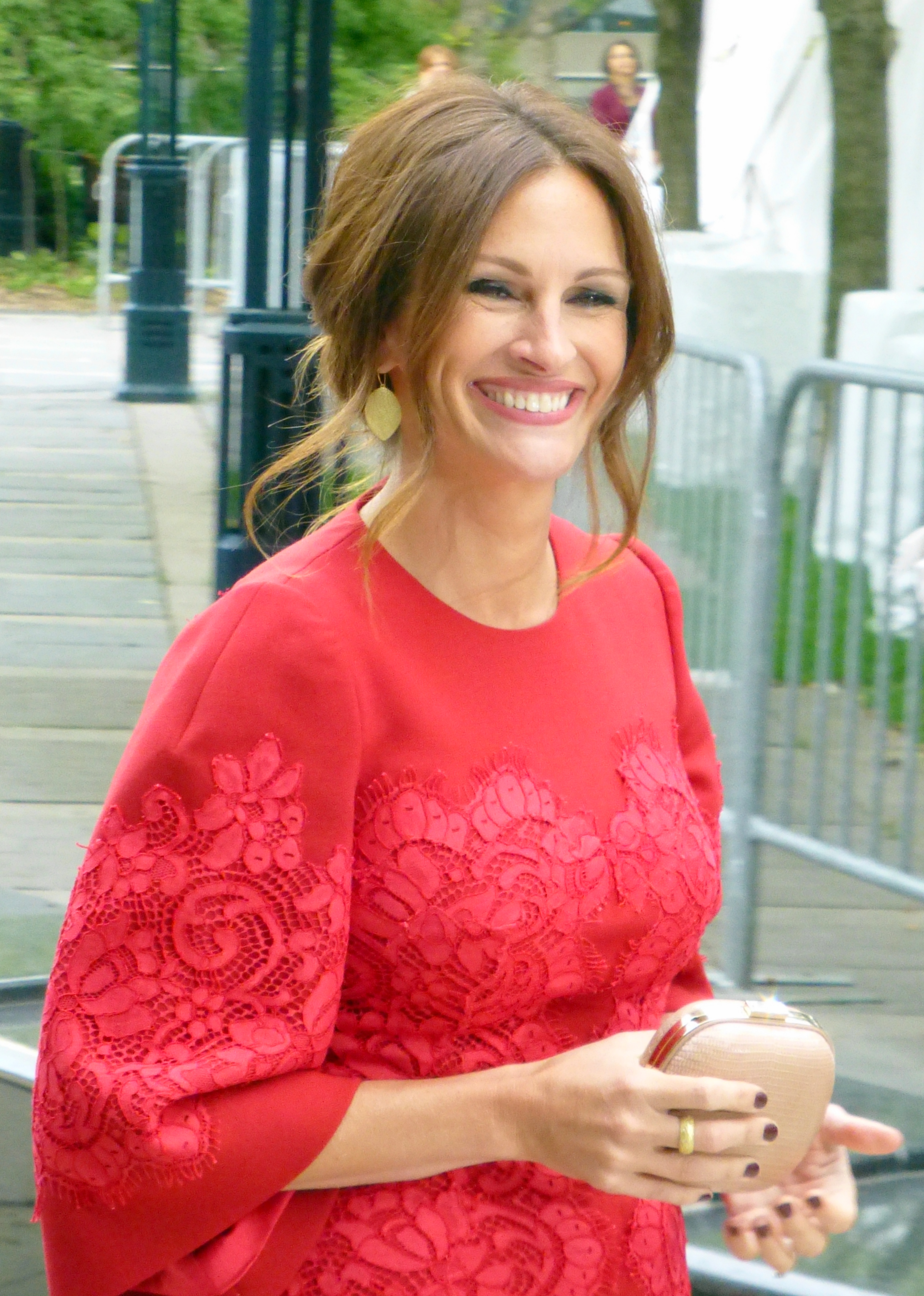 Julia Roberts at the premiere of August: Osage County, Toronto Film Festival 2013